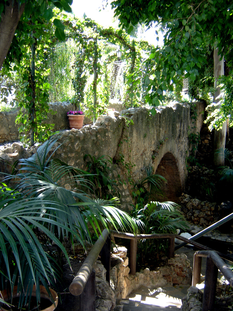 1st century Roman bridge, Marbella, Málaga, Spain